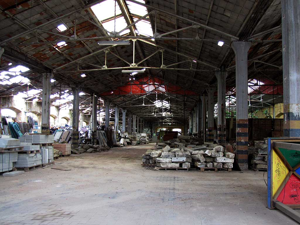 Former Pirelli factory, Livorno